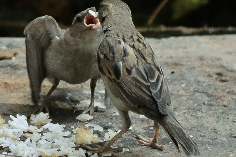 Baby is hungry.. mother knows that ... and feeds her constantly ..